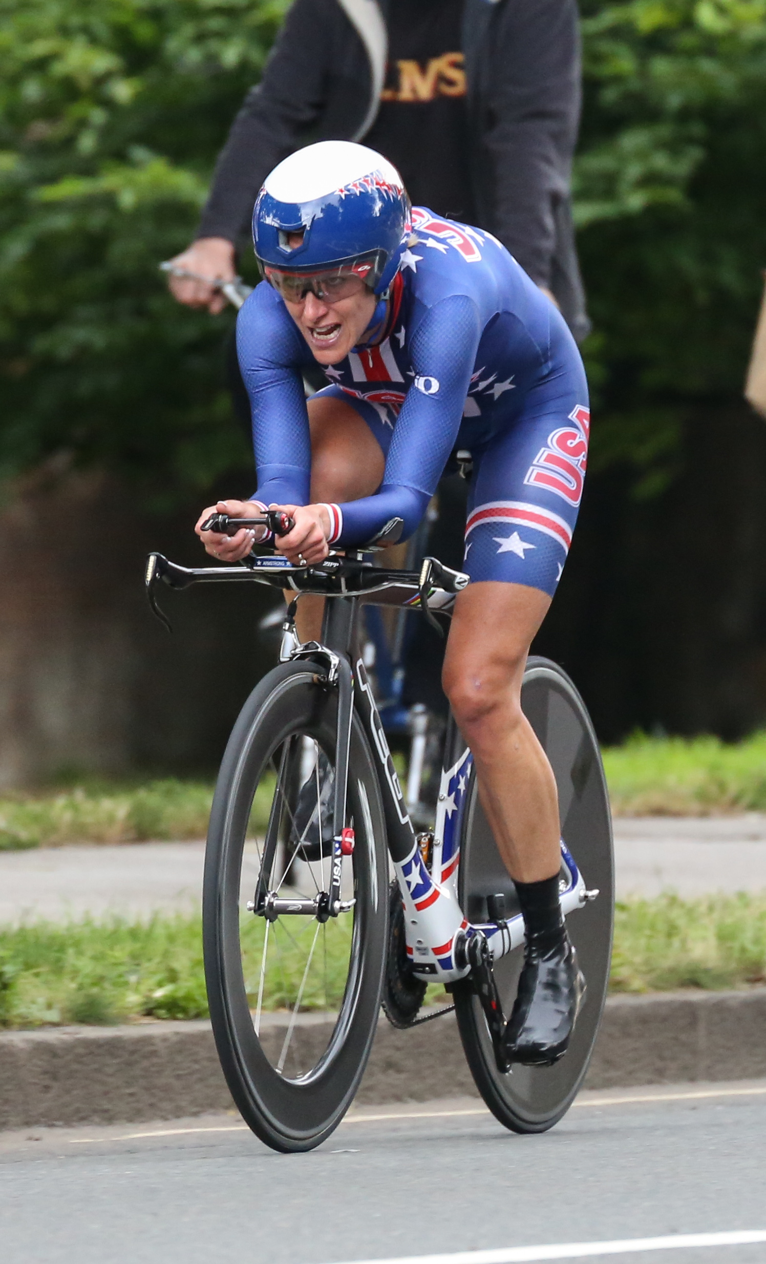 Kristin Armstrong competing in the London 2012 Women's Olympic Time Trial.